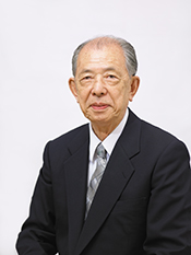 Shun'ichi Iwasaki, Director of Tohoku Institute of Technology, received the Order of Culture on November, 2013. (For terms of use, see 文部科学省ウェブサイト利用規約：文部科学省.)